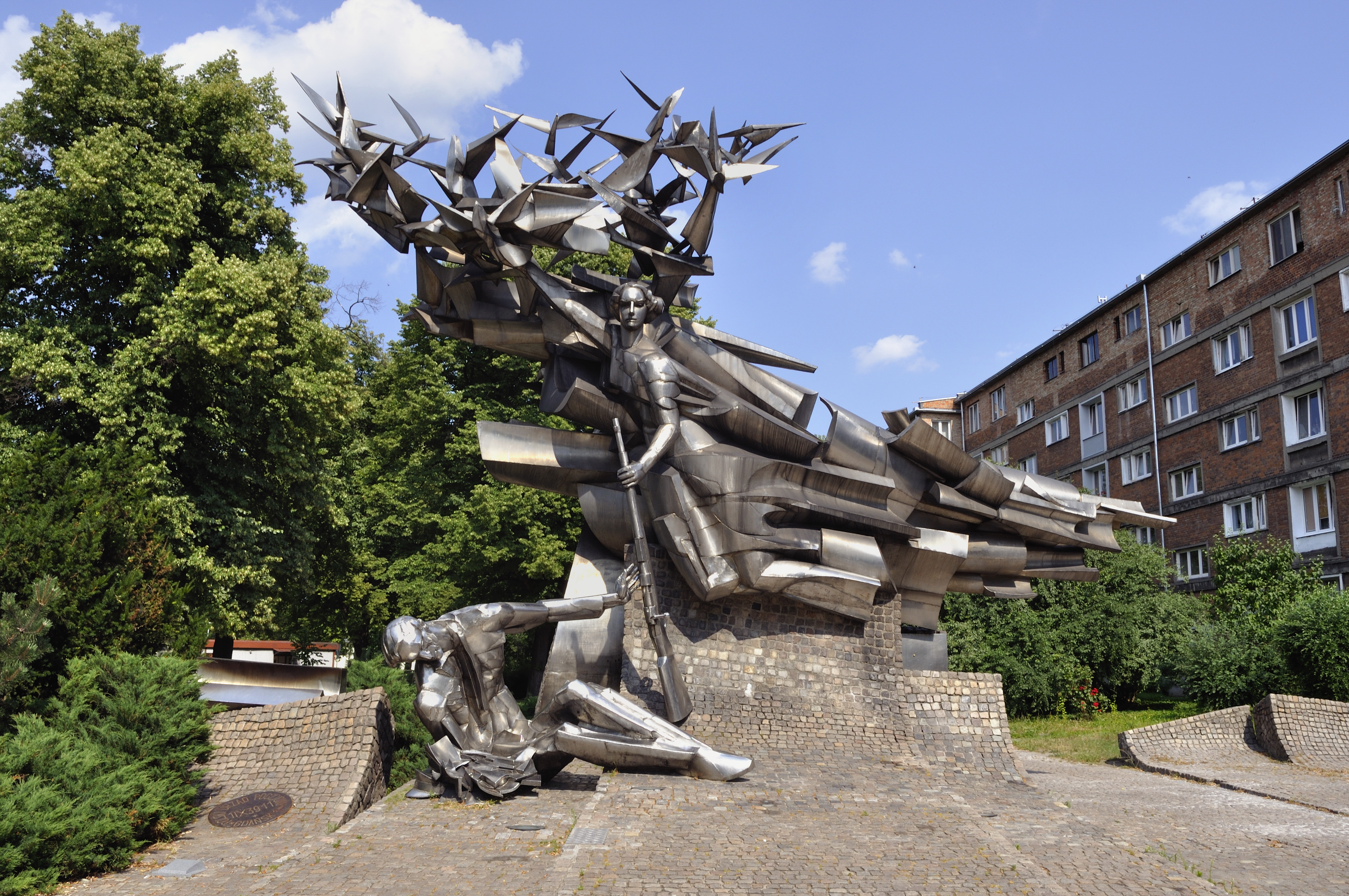 Picture taken in Gdańsk after Wikimania 2010 conference. Defenders of the Polish Post Office.